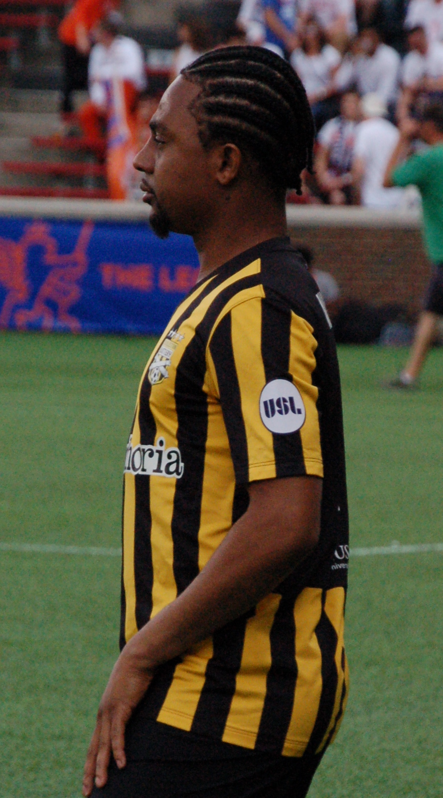 O'Brian Woodbine Taken during a 2016 USL Playoffs Eastern Conference Quarterfinals match between FC Cincinnati and Charleston Battery at Nippert Stadium in Cincinnati on October 2, 2016.